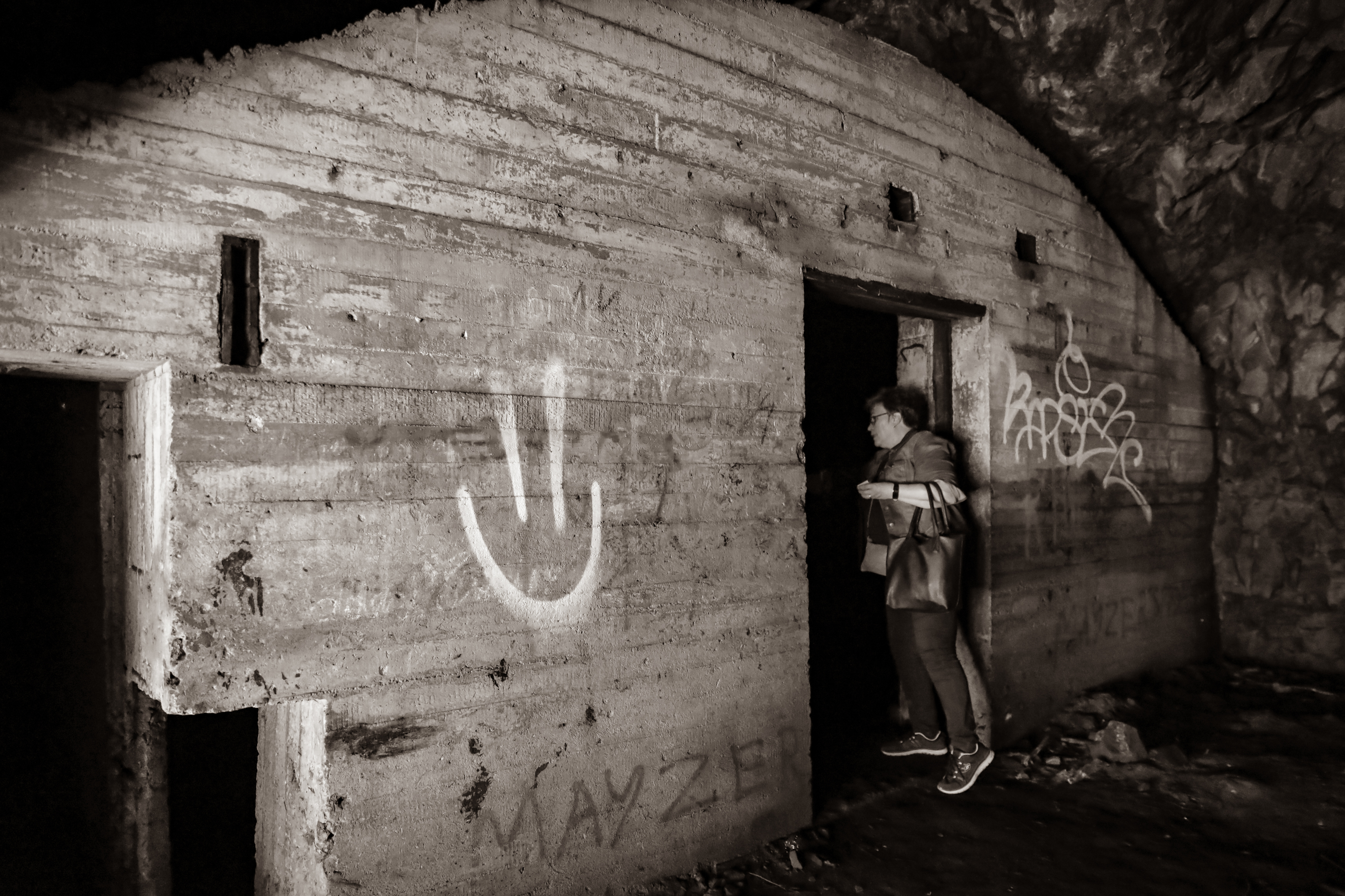 Cave built by the Finnish Army in 1941-1944 in Medvezhyegorsk, Russia.